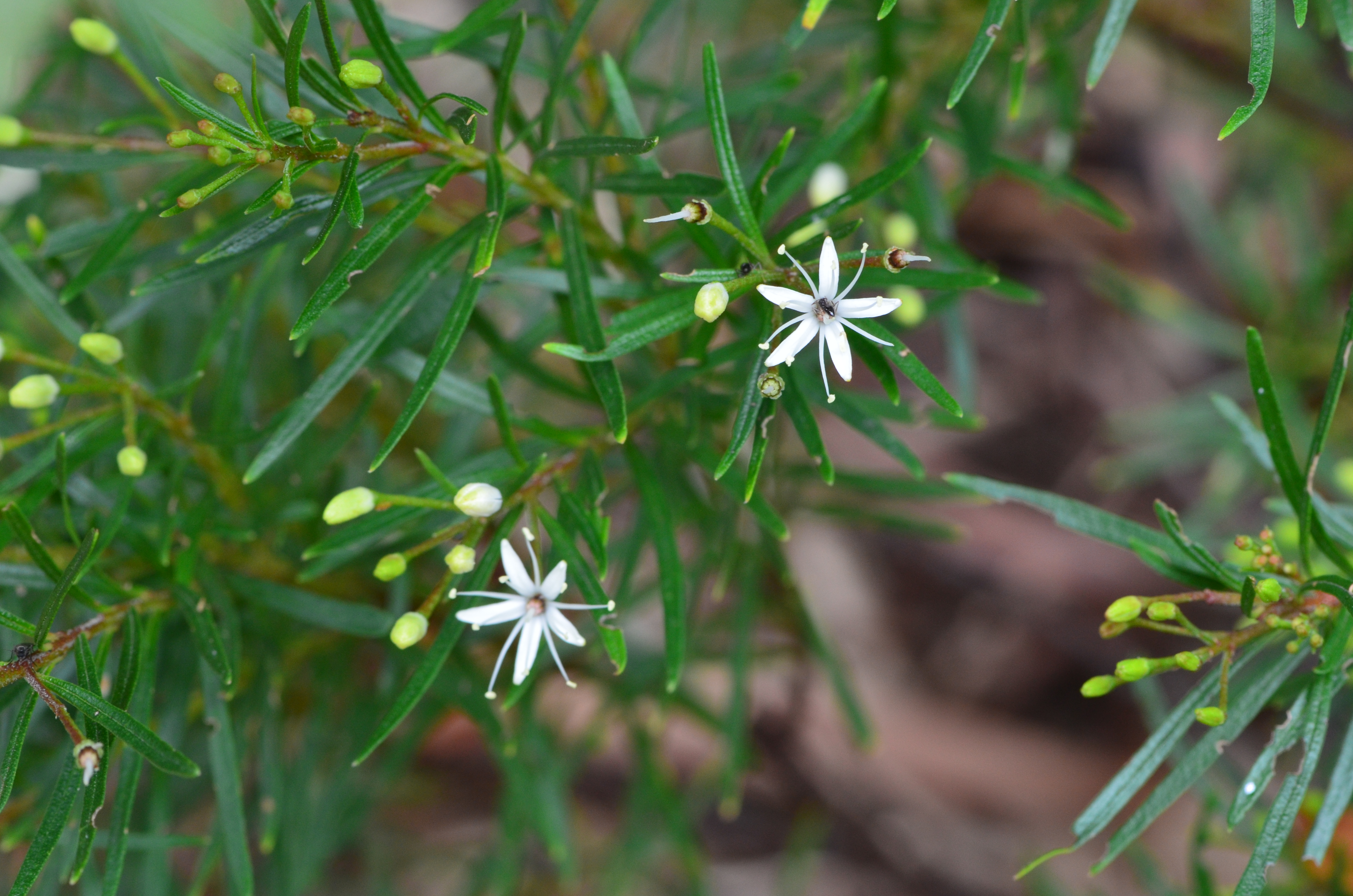 Leionema sp. 'Colo River', identified by Tony Rodd (Rodd). Growing at Mount Annan Botanical Gardens, New South Wales